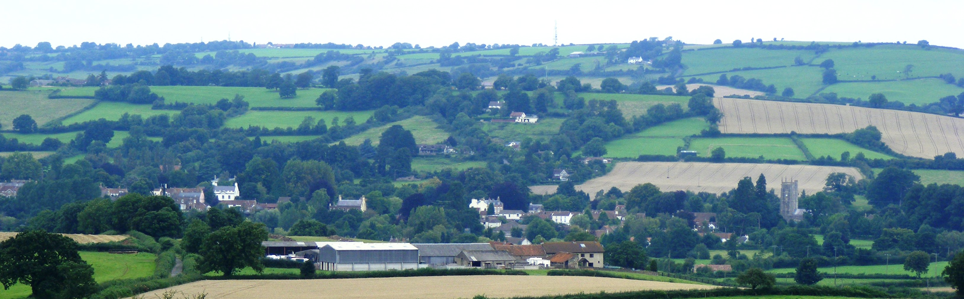 Chew Magna, Somerset taken from Knowle Hill